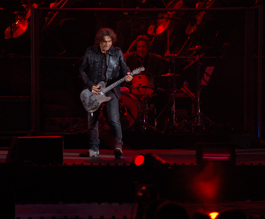 Luciano Ligabue in concert at Verona Arena, September 25, 2008. Behind him, playing drums, Michael Urbano